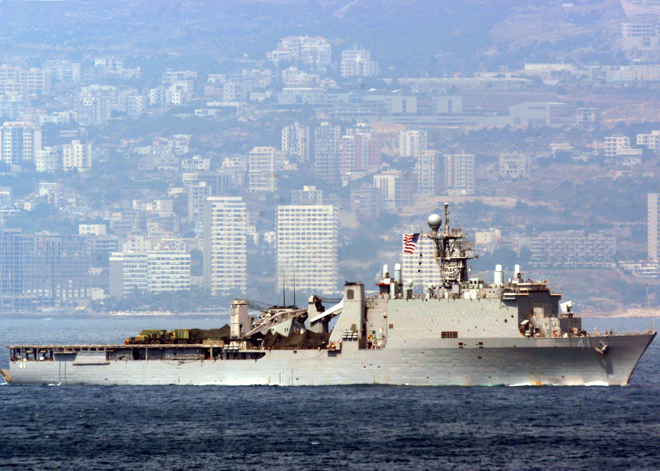 The dock landing ship USS Whidbey Island (LSD 41) shown on station just off the coastline of Beirut, Lebanon. Whidbey Island and other ships of the Iwo Jima Expeditionary Strike Group (ESG) are currently assisting in the departure of U.S. citizens from Lebanon.